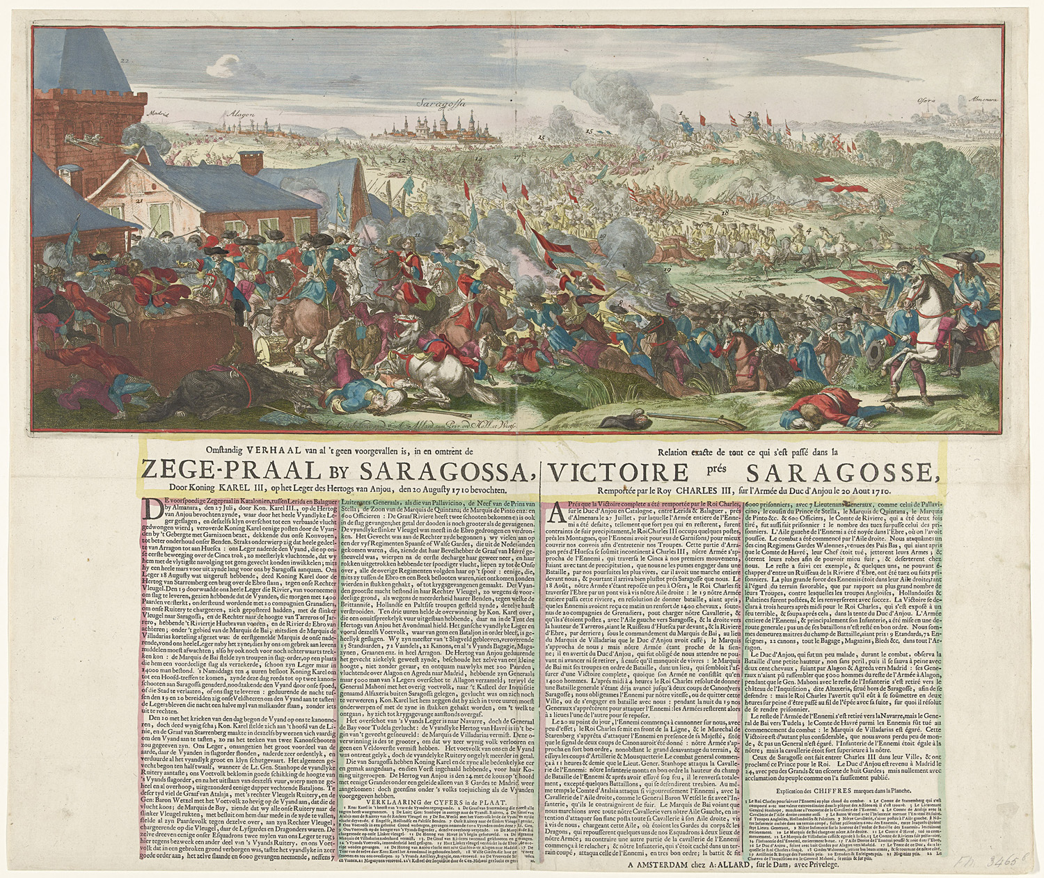 Victoria de las tropas aliadas del archiduque Carlos sobre los franceses cerca de Zaragoza en el curso de la guerra de sucesión española, el 20 de agosto de 1710. Aguafuerte coloreado impreso en Ámsterdam por Abraham Allard. Al pie, descripción de la batalla a cuatro columnas en neerlandés y francés. La estampa reutiliza la plancha dedicada a la victoria de Guillermo III de Orange sobre Jacobo II en Irlanda, en 1690. Rijksmuseum: [1]